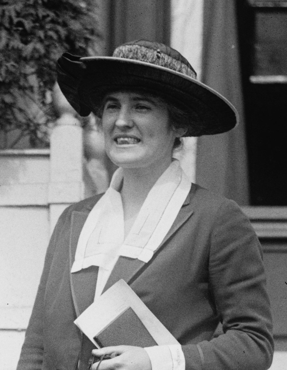 Title: Josephine Schain, Eugene C. Gibney, 2/20/20 Abstract/medium: 1 negative : glass ; 4 x 5 in. or smaller